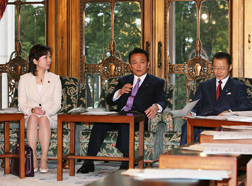 Tarō Asō, Prime Minister, attended a meeting of the Strategic Headquarters for Space Policy with Takeo Kawamura, Chief Cabinet Secretary, and Seiko Noda, Minister of State for Science and Technology, at the National Diet Building in Chiyoda Ward, Tōkyō Metropolis on December 2, 2008.